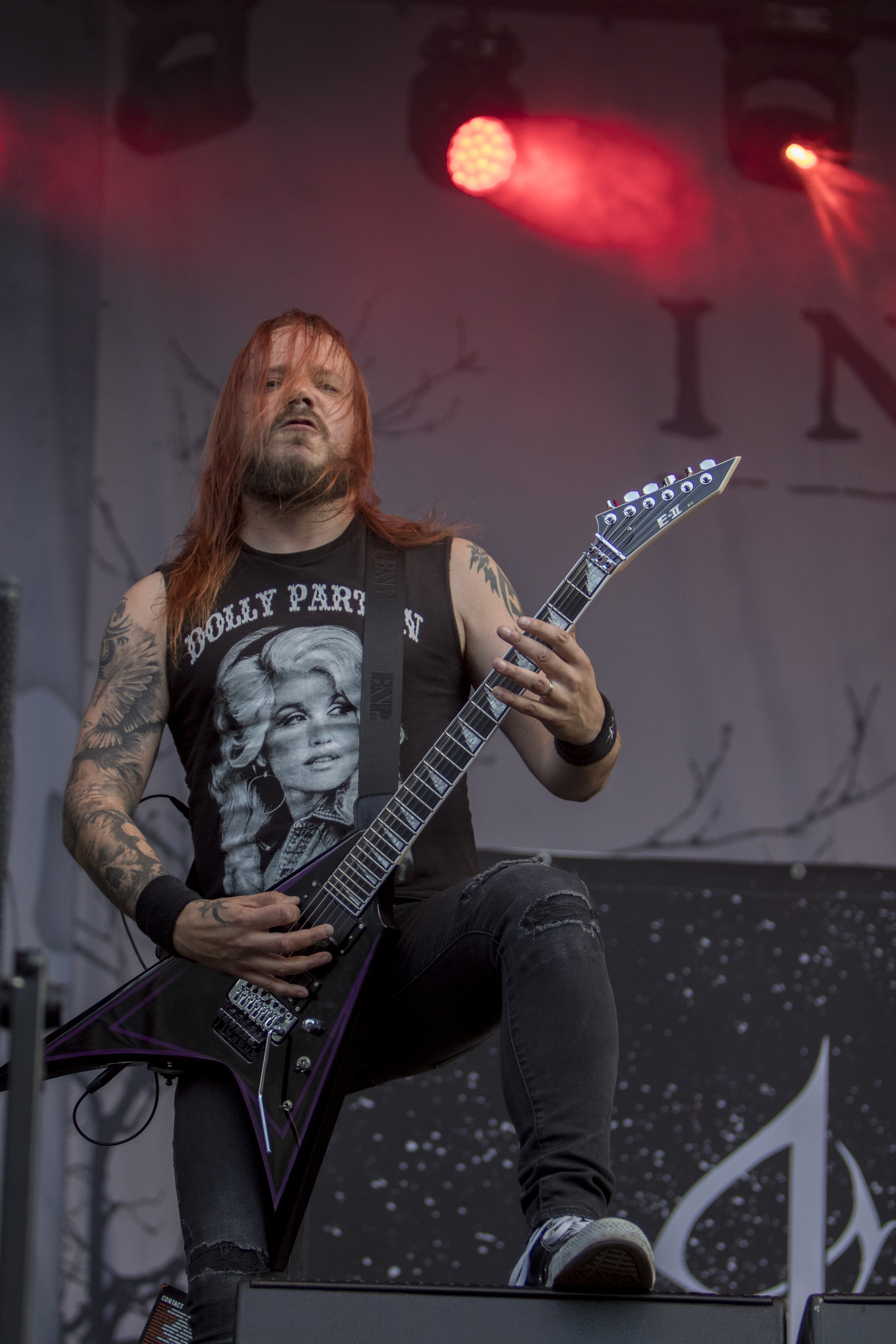 Insomnium at John Smith 2019 festival in Peurunka, Finland